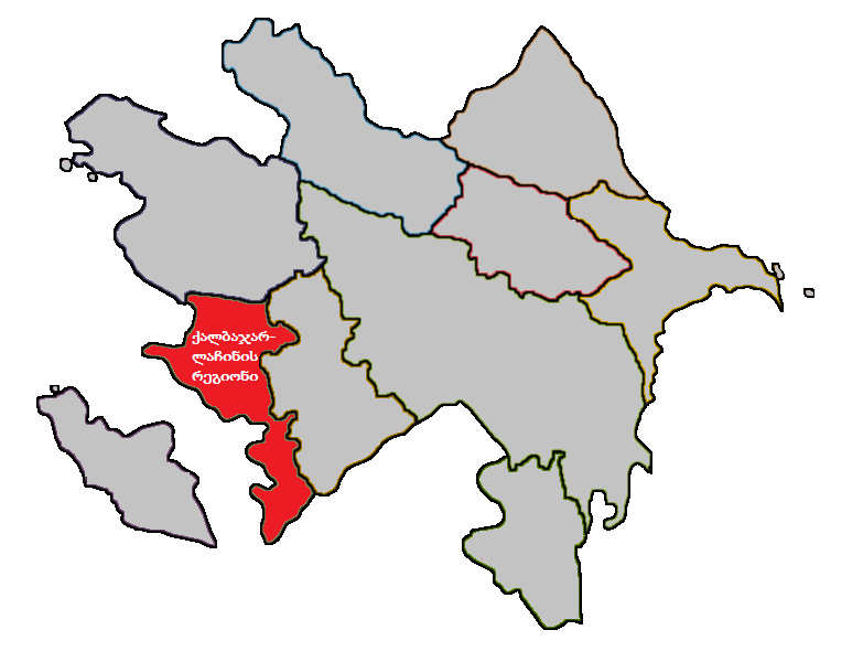 Kalbajar-Lachin region.